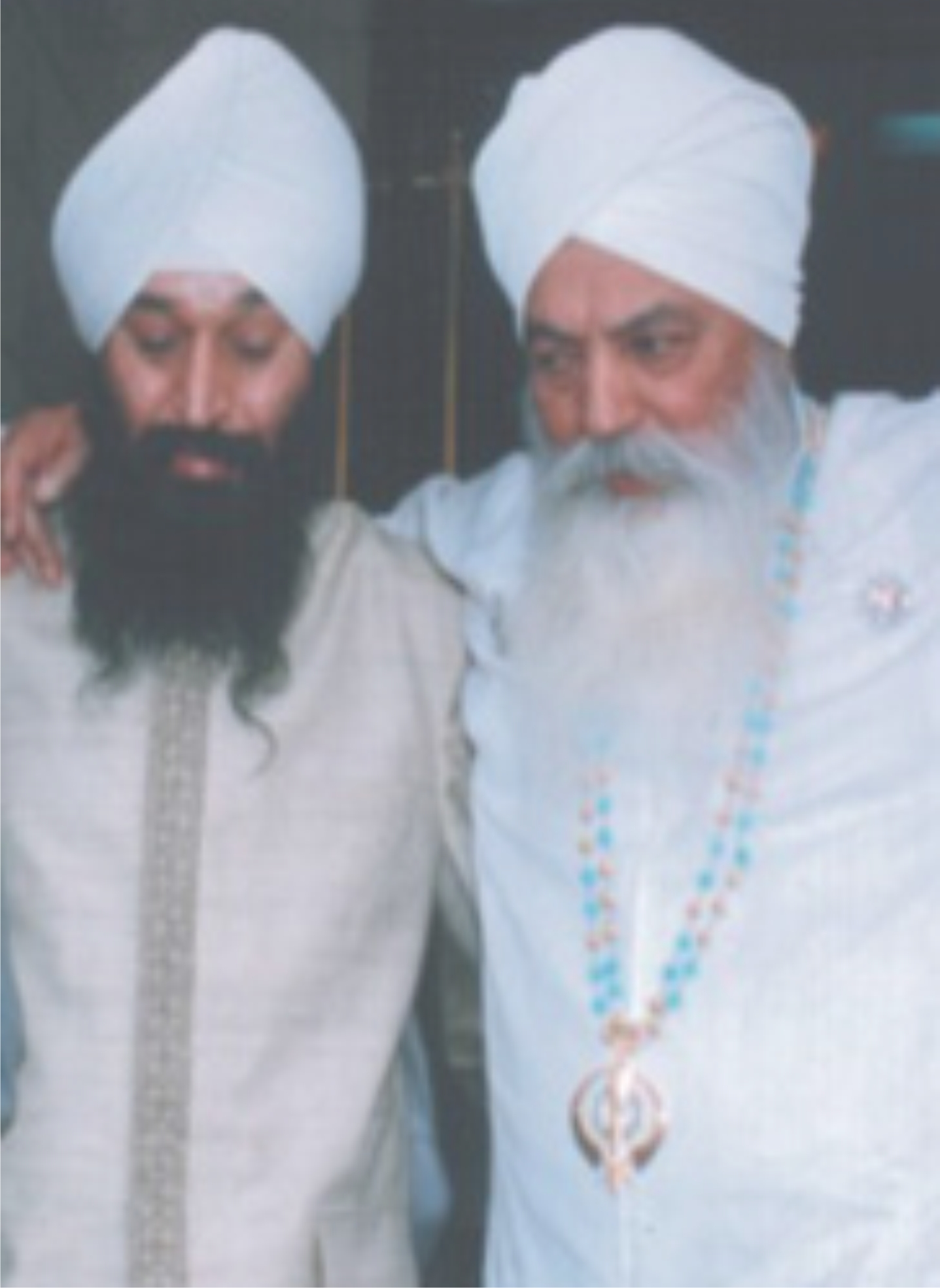 Bhai Sahib Satpal Singh Khalsa along with Yogiji.